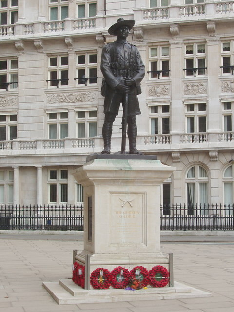 Gurkha Memorial, Horse Guards Avenue "Bravest of the brave, most generous of the generous, never had country more faithful friends than you." These words by Sir Ralph Turner are the inscription on the memorial unveiled in 1997.